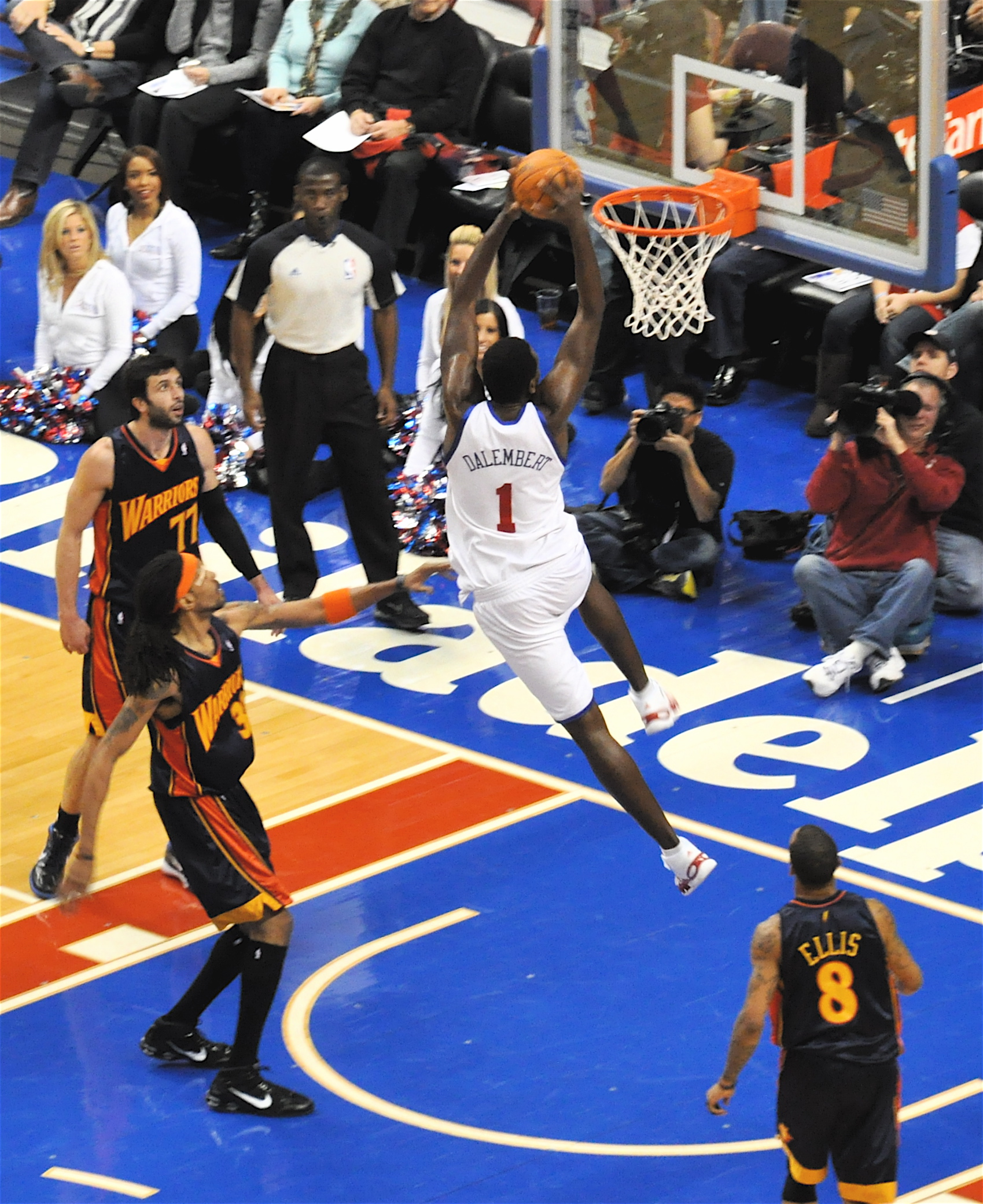 Samuel Dalembert dunking against the Golden State Warriors. Vladmir Radmanovic, Mikki Moore and Monta Ellis watch.